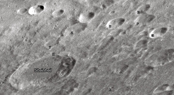 Steinheil lunar crater as seen from Earth with satellite craters labeled